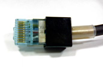 Close-up photo of an 10P10C connector. This cable is included with a Polycom Soundstructure DSP. It is used to connect a Polycom HDX Codec to a Soundstructure using a male Walta to female RJ45 adapter.